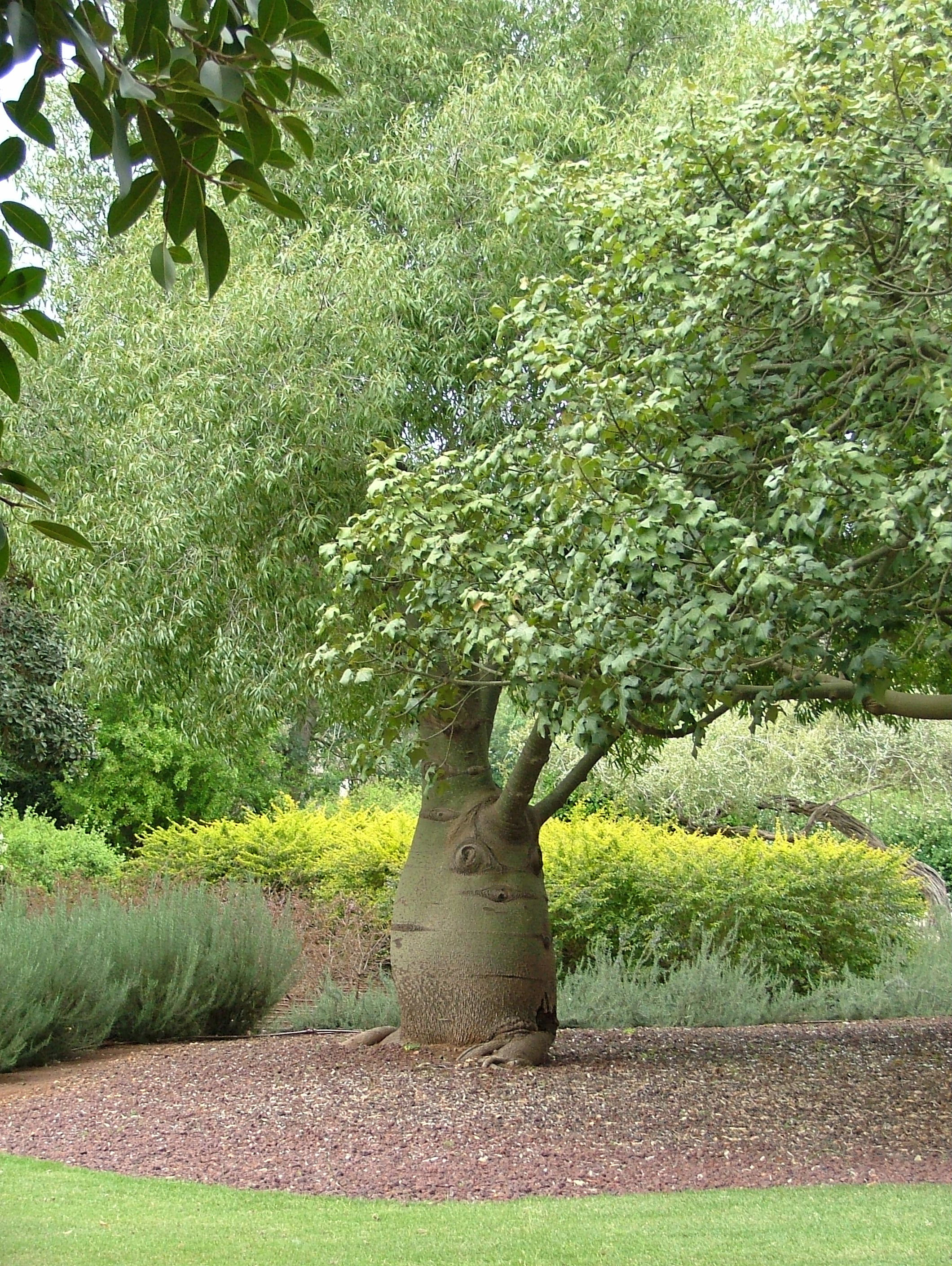 a tree in the Nadiv gardens in Zichron-Ya'akov